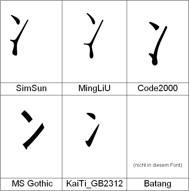 Kangxi Chinese radical 015 冫 "bīng" (U+51AB), presented by different fonts